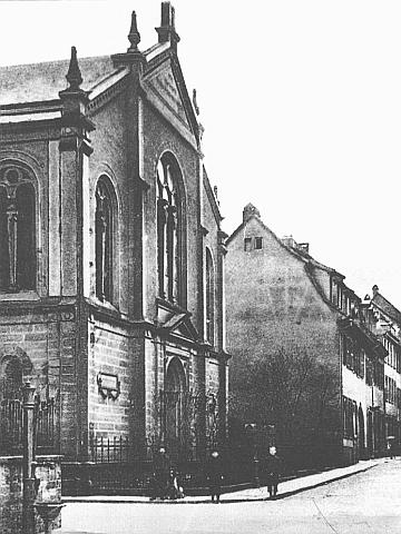 Synagogue in Heidelberg- built in 1878 - destroyed by the nazis in 1938 during the Kristal Nacht - photo of 1913